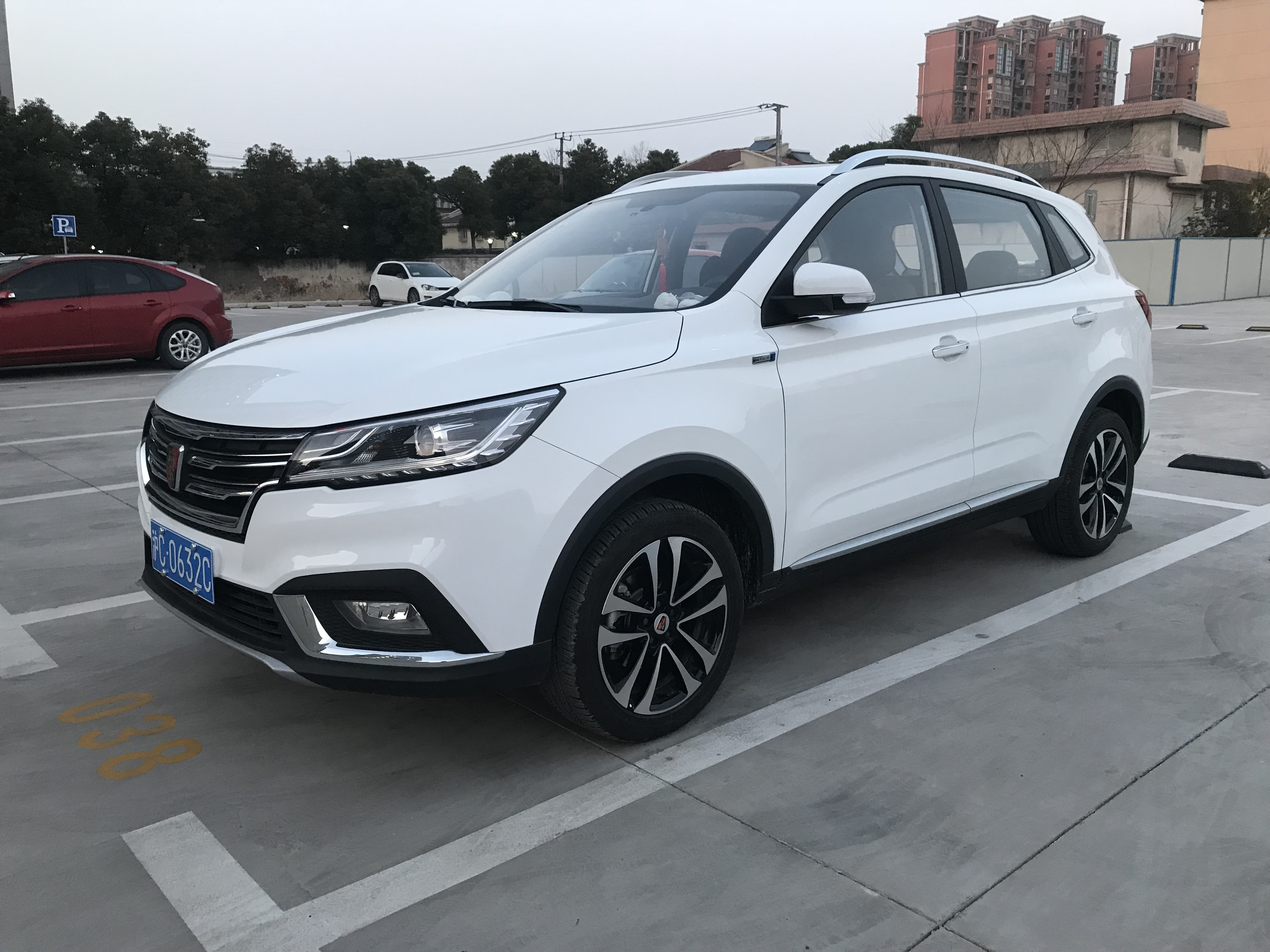 Front view of the Roewe RX3 crossover.